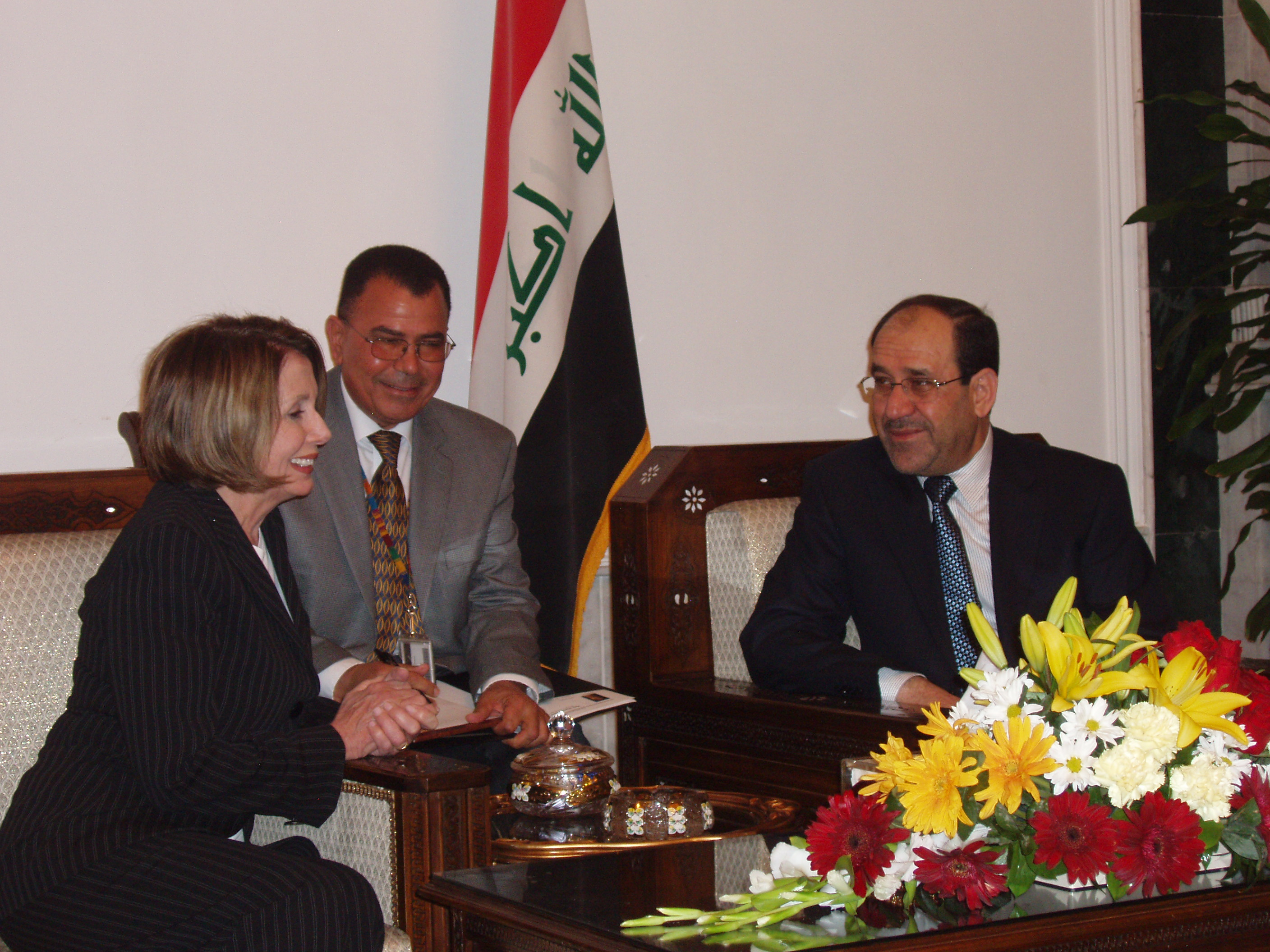 Speaker Pelosi meets with Iraqi Prime Minister Nouri al-Maliki in Baghdad on Sunday, May 10, 2009